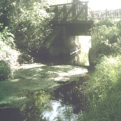 A former railway-bridge crossing the Flöthbach creek in Germany.